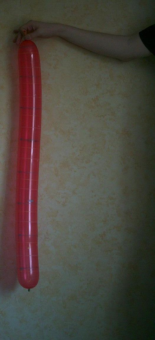 An inflated rocket balloon.